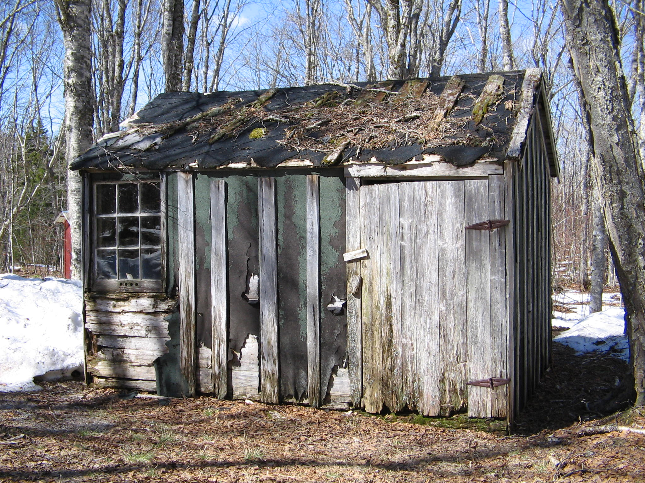 A rundown, empty shack. Photographed by Oven Fresh.